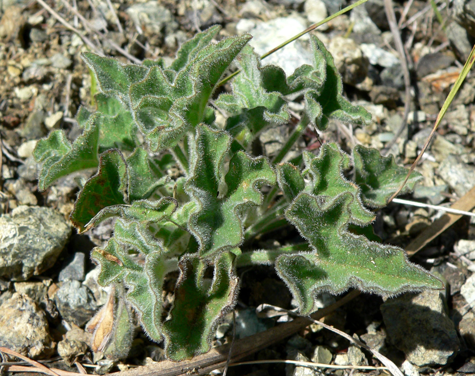 Calystegia collina ssp. oxyphylla at the University of California Botanical Garden, Berkeley, California